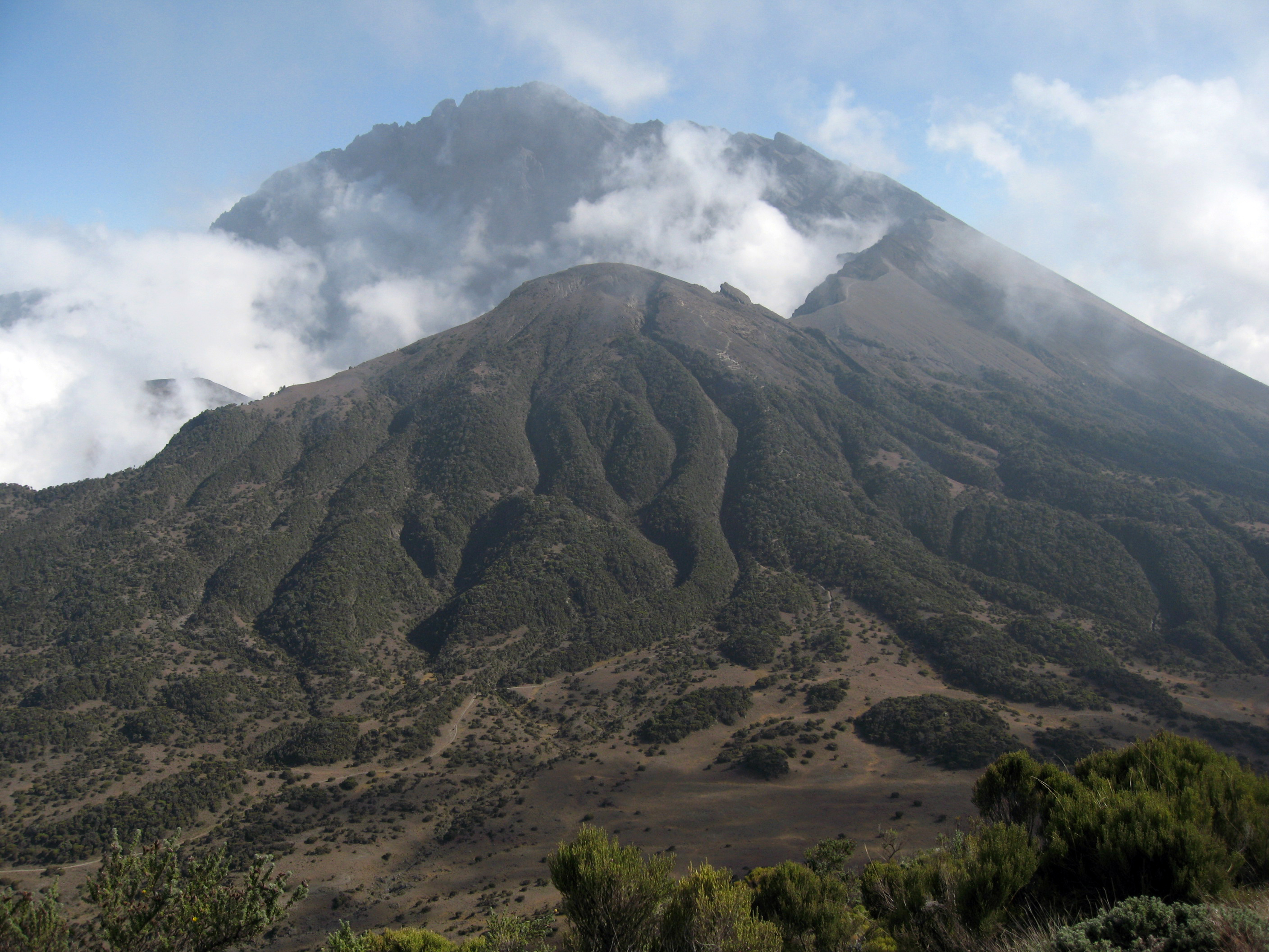 The part way up to Mount Meru, the shape of the old caldera (volcanic crater)